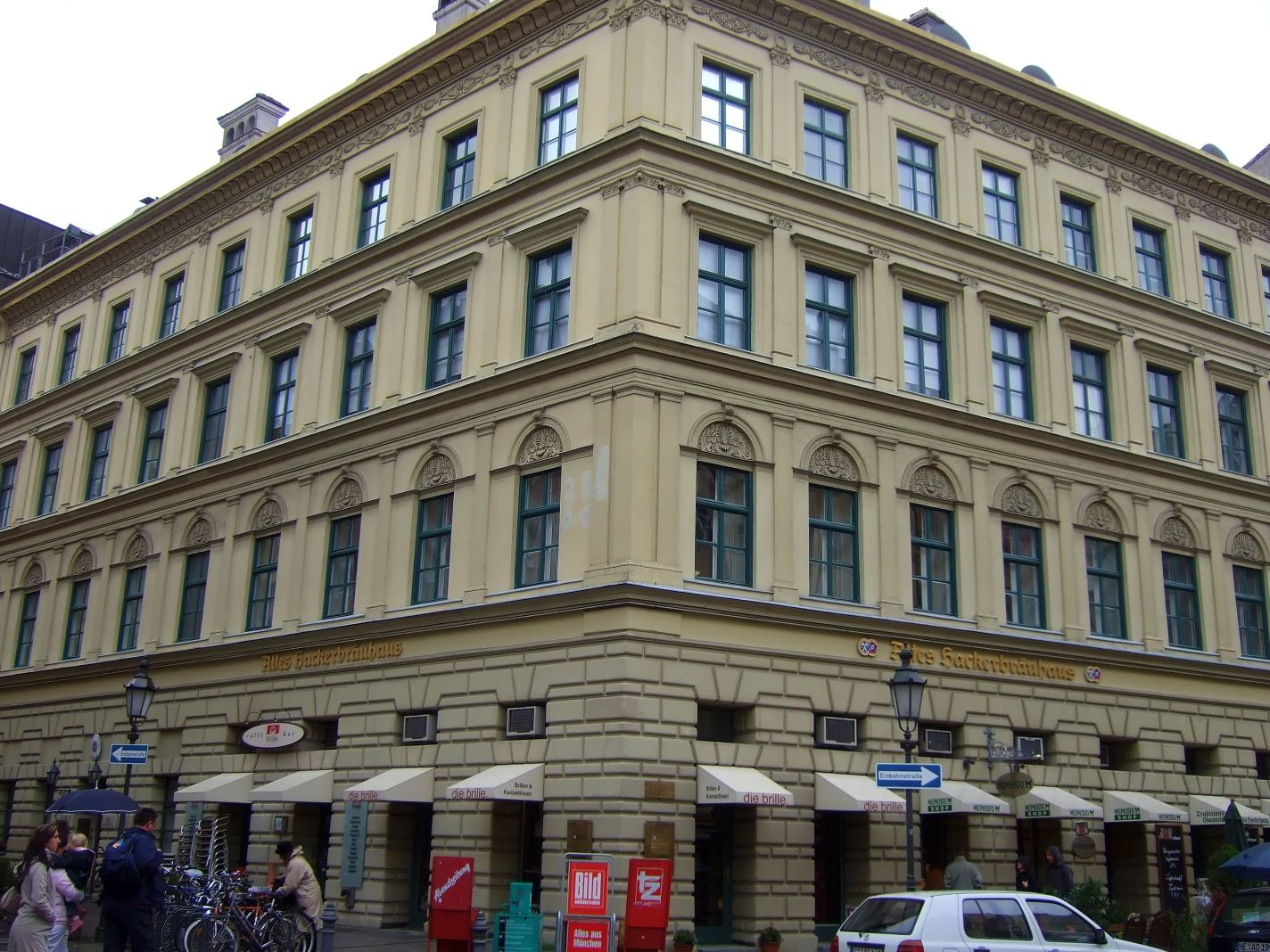 Entrance of the "Altes Hackerhaus", a traditional Munich Restaurant. The Restaurant was the former house restaurant of an very old Munich Brewery. Since 1985, it is being run by the family Pongratz. Website of the Restaurant